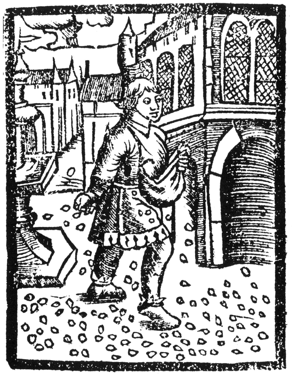 Braunschweig, Germany: Woodcut from 1519: Till Eulenspiegel sowing tricksters. Alleged depiction of the Old Town market square in Braunschweig.